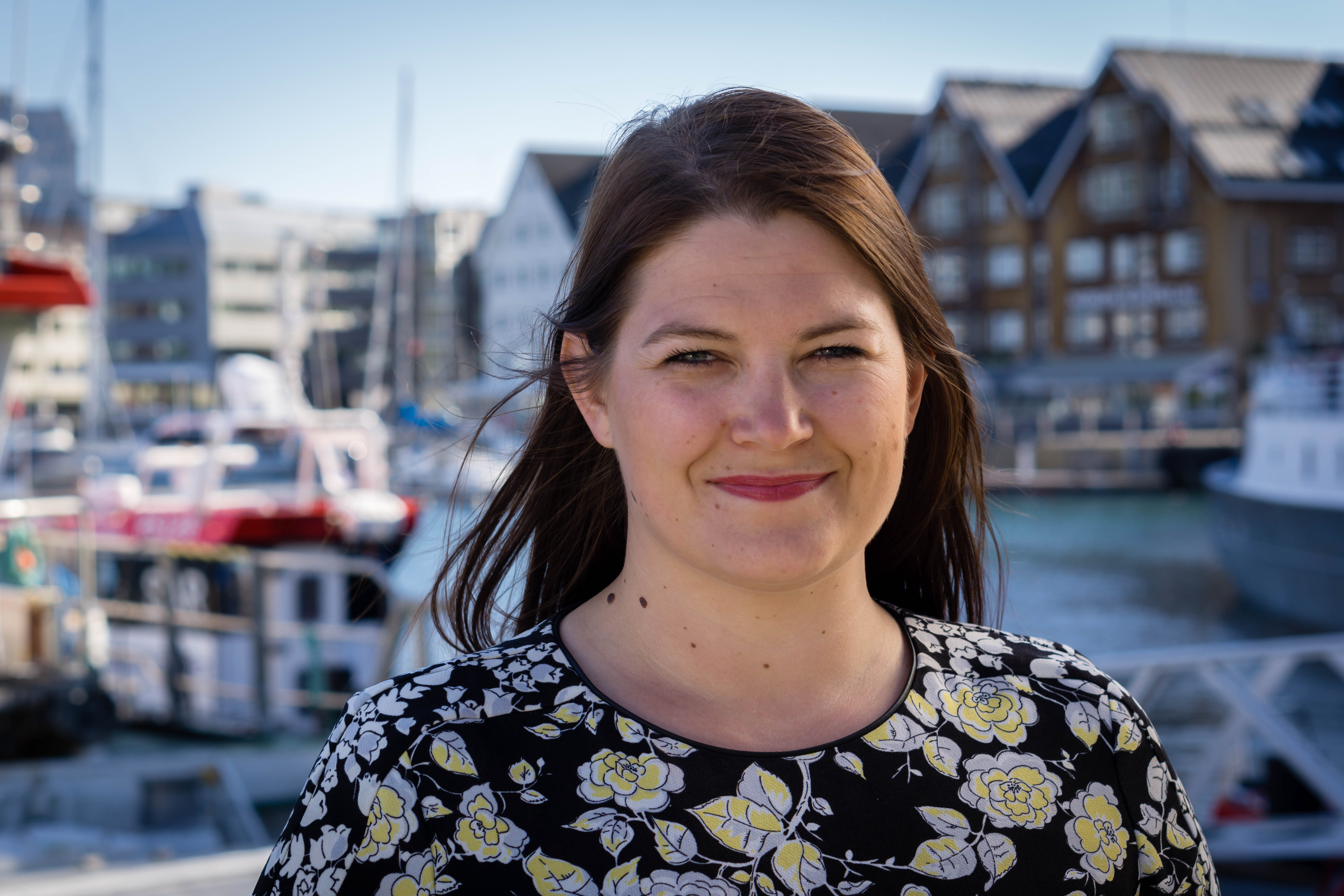 Bilde av Cecilie Myrseth